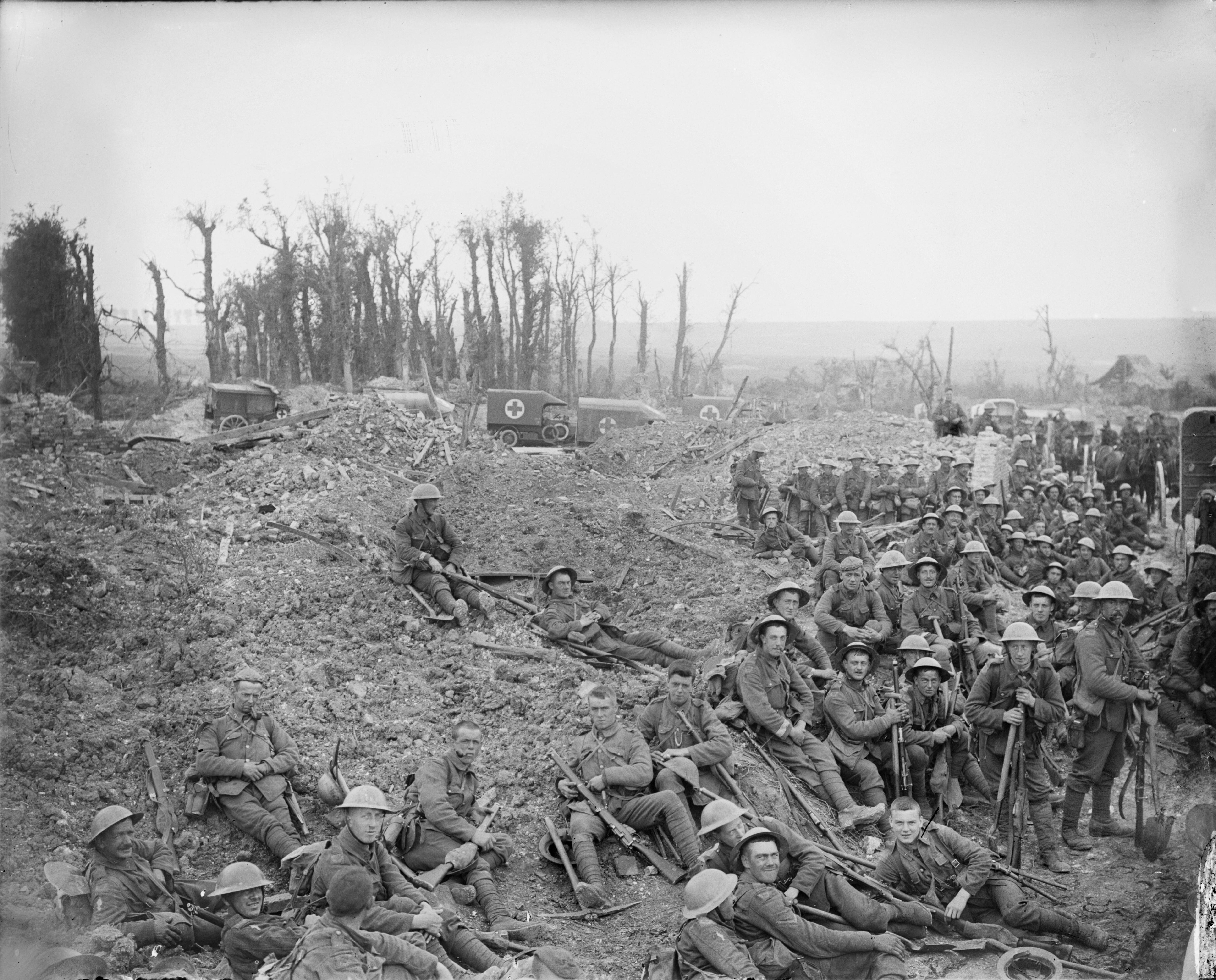 The Battle of the Somme, July-november 1916 Battle of Bazentin Ridge. Troops of the 5th Platoon, B Company, 15th Battalion, Hampshire Regiment resting before going into the trenches. Southern Road, Mametz Wood, 17 July 1916. Ambulances of the 63rd Field Ambulance and 2/2nd West Lancashire Field Ambulance (Territorial Force) in the background.